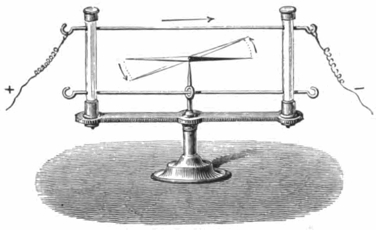 School apparatus for performing Øersted's experiment demonstrating that electric currents create magnetic fields, first performed 21 April 1820 by Danish scientist Hans Christian Øersted. It consists of ana wire suspended over a compass needle. When an electric current.is passed through the wire as shown, the compass needle deflects to a right angle with the wire.